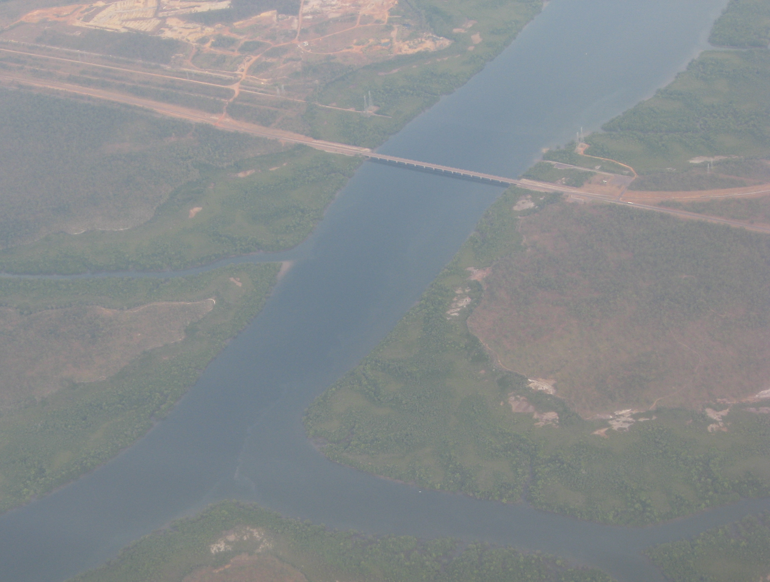 Bridge over the Elizabeth River, near Darwin i090508 008